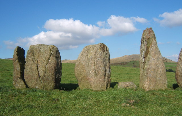 Part of Swinside stone circle